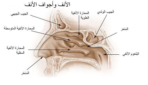 Arabic version of image:Illu nose nasal cavities.jpg